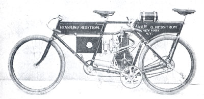 Tandem Pacer built by Carl Oscar Hedstrom, who later founded Indian Motocycle Company